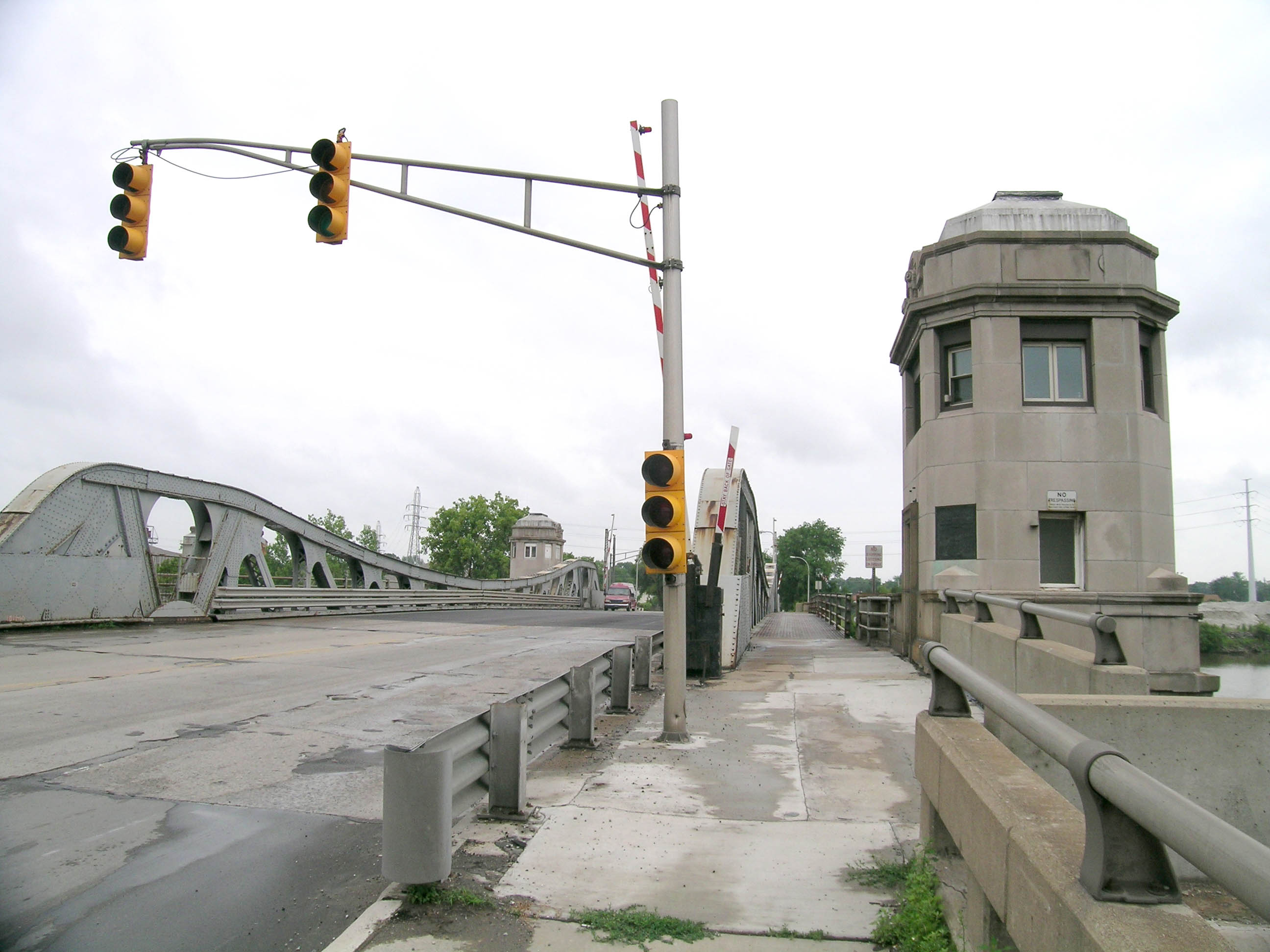 Jefferson Avenue Bridge over the Rouge River — in Detroit, Michigan.